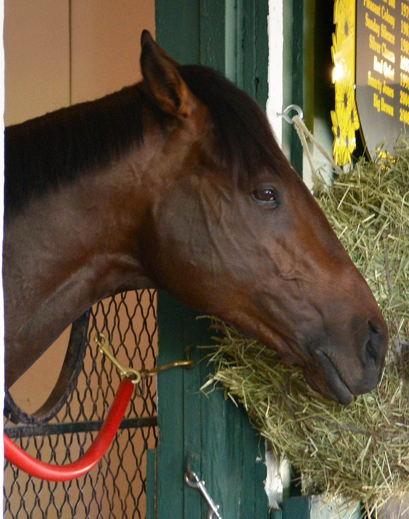 Governor O'Malley greets Kentucky Derby winner Orb at Black Eyed Susan Day at Pimlico Race track, Baltimore, Maryland. Photograph by Tom Nappi.